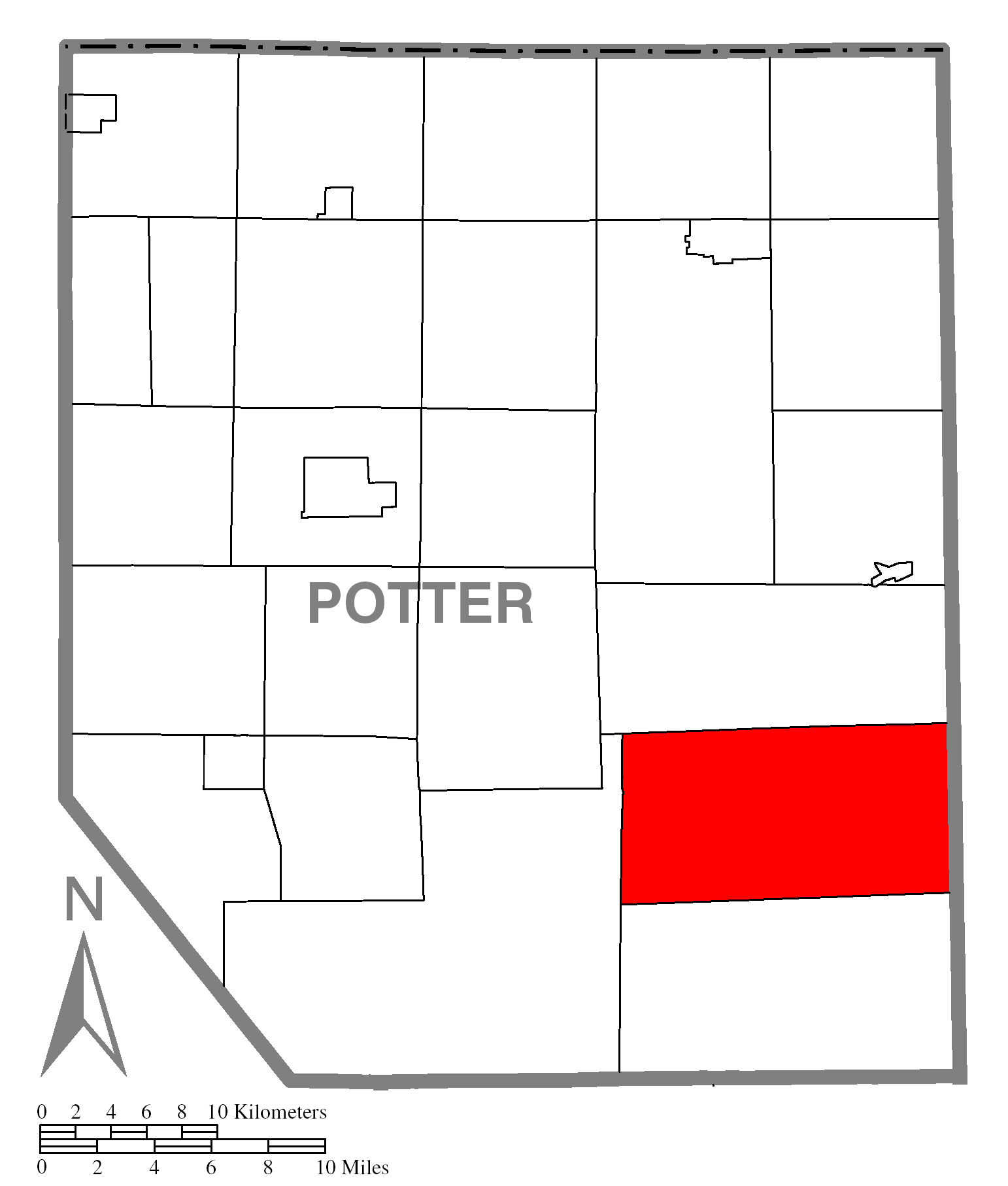 A map of Potter County showing Abbott Township, Pennsylvania (alternate) highlighted on the map.